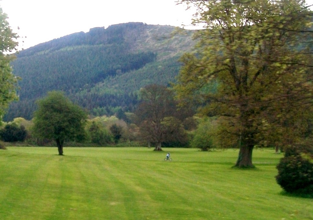 A lone cyclist in Kilbroney Park